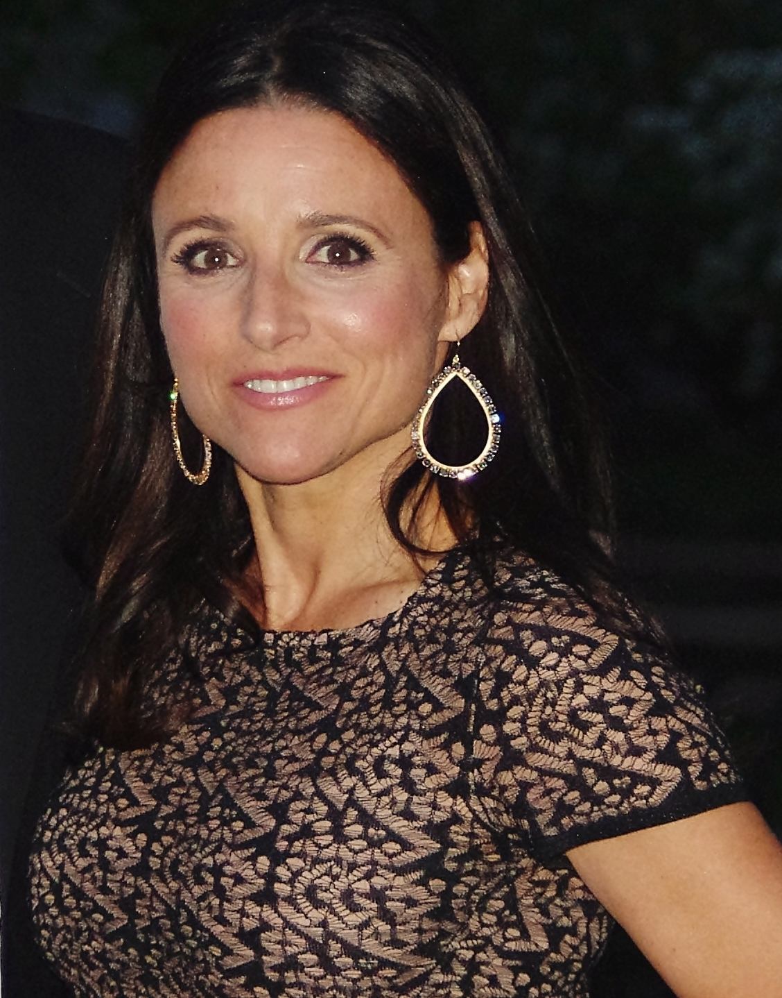 Brad Hall and Julia Louis-Dreyfus at the Vanity Fair party for the 2012 Tribeca Film Festival.